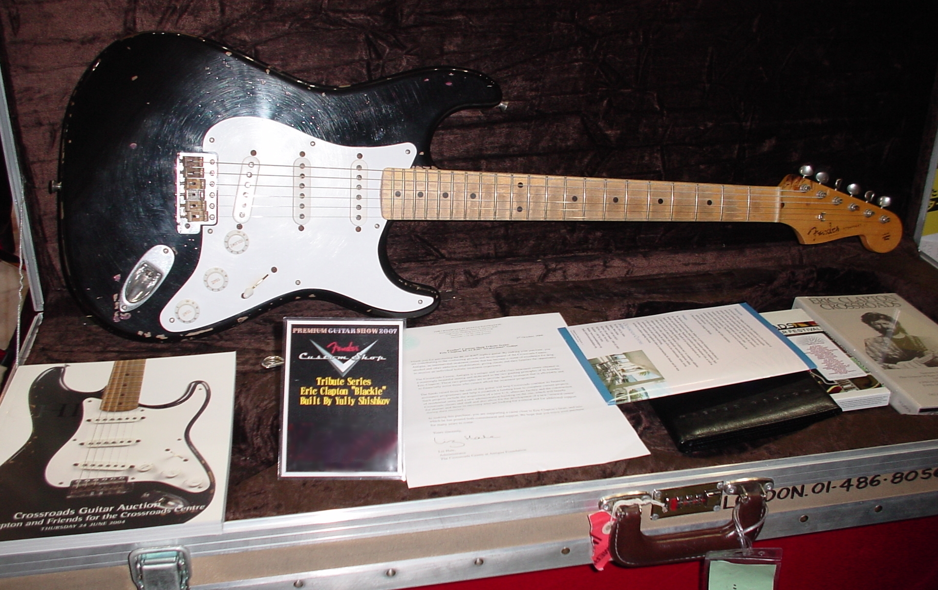 Fender Stratocaster Blackie (Eric Clapton Tribute Model) Master Builder: Yuriy Shishkov (Fender senior master builder.From the Soviet Union.)